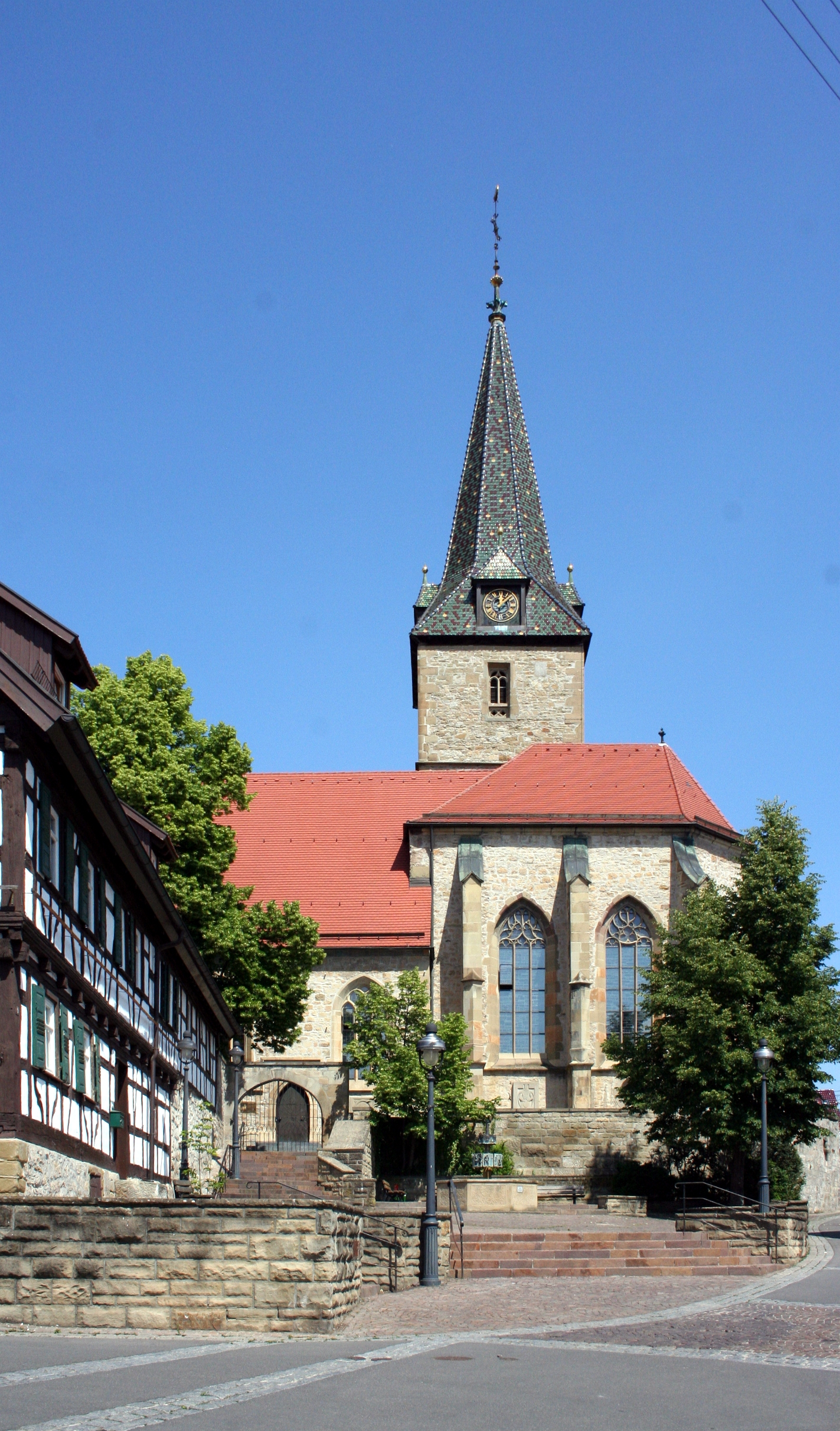 Catholic parish church St. Martin at Kornwestheim, administrative district Ludwigsburg, Baden-Wurttemberg, Germany. Registered in the monument list of the government presidium of Stuttgart (2005).